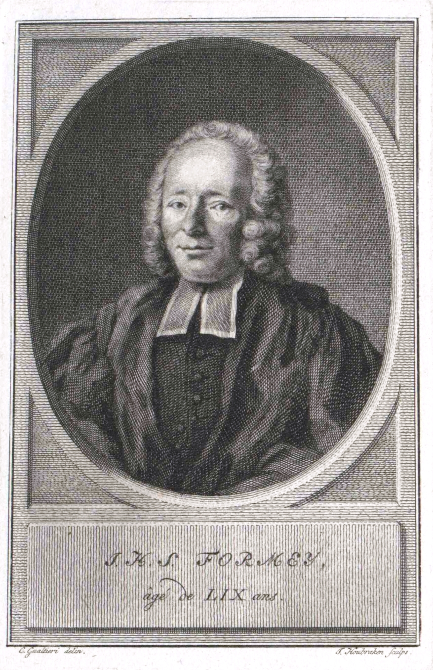 Portrait of Jean Henri Samuel Formey, Huguenot scientist in Berlin. Aged 59.